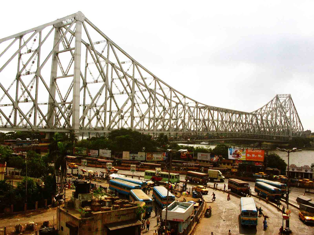 The Howrah Bridge spans the Hooghly River in West Bengal, India